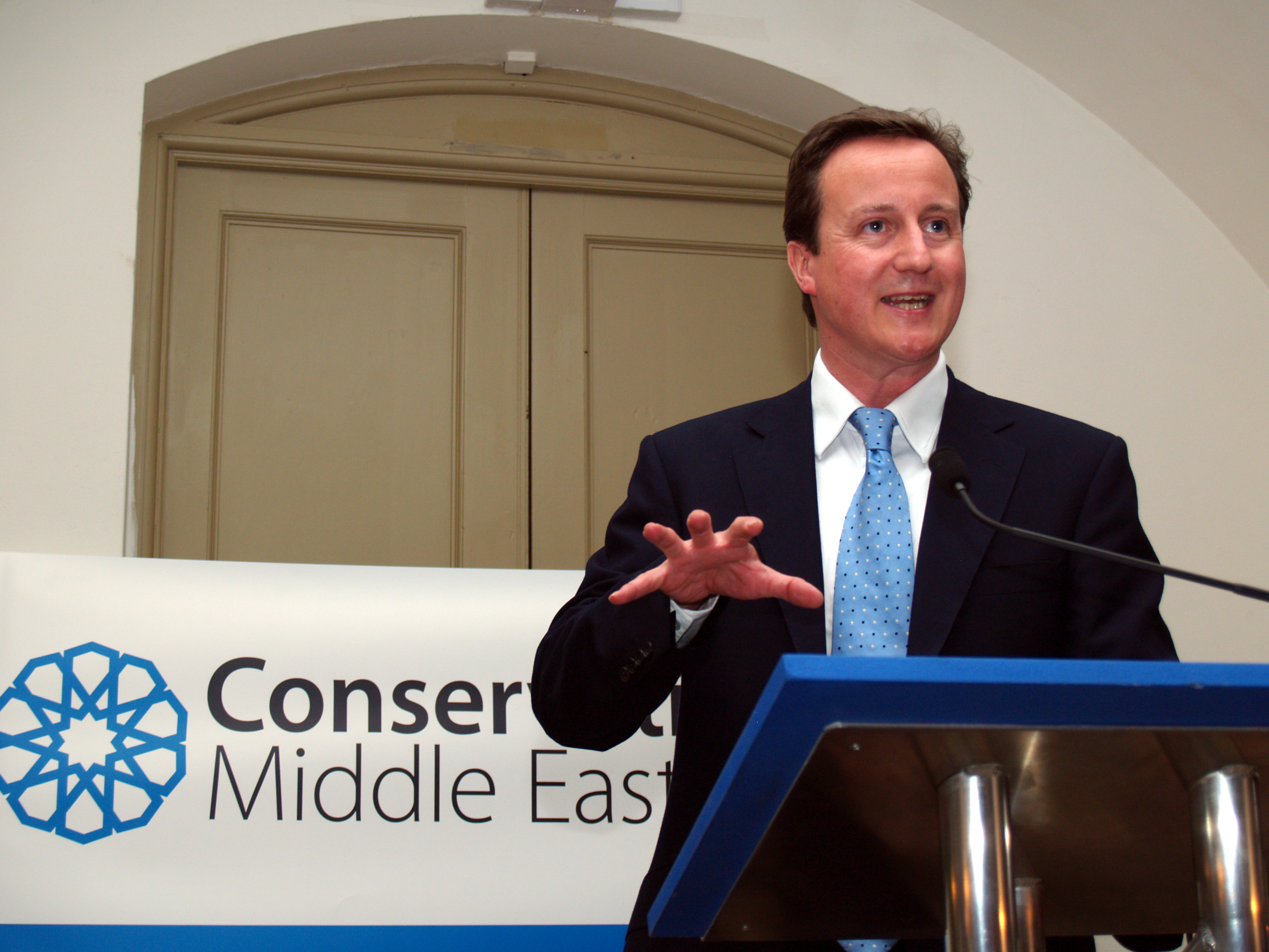 Rt Hon David Cameron MP speaking at the Conservative Middle East Council Annual Gala Dinner